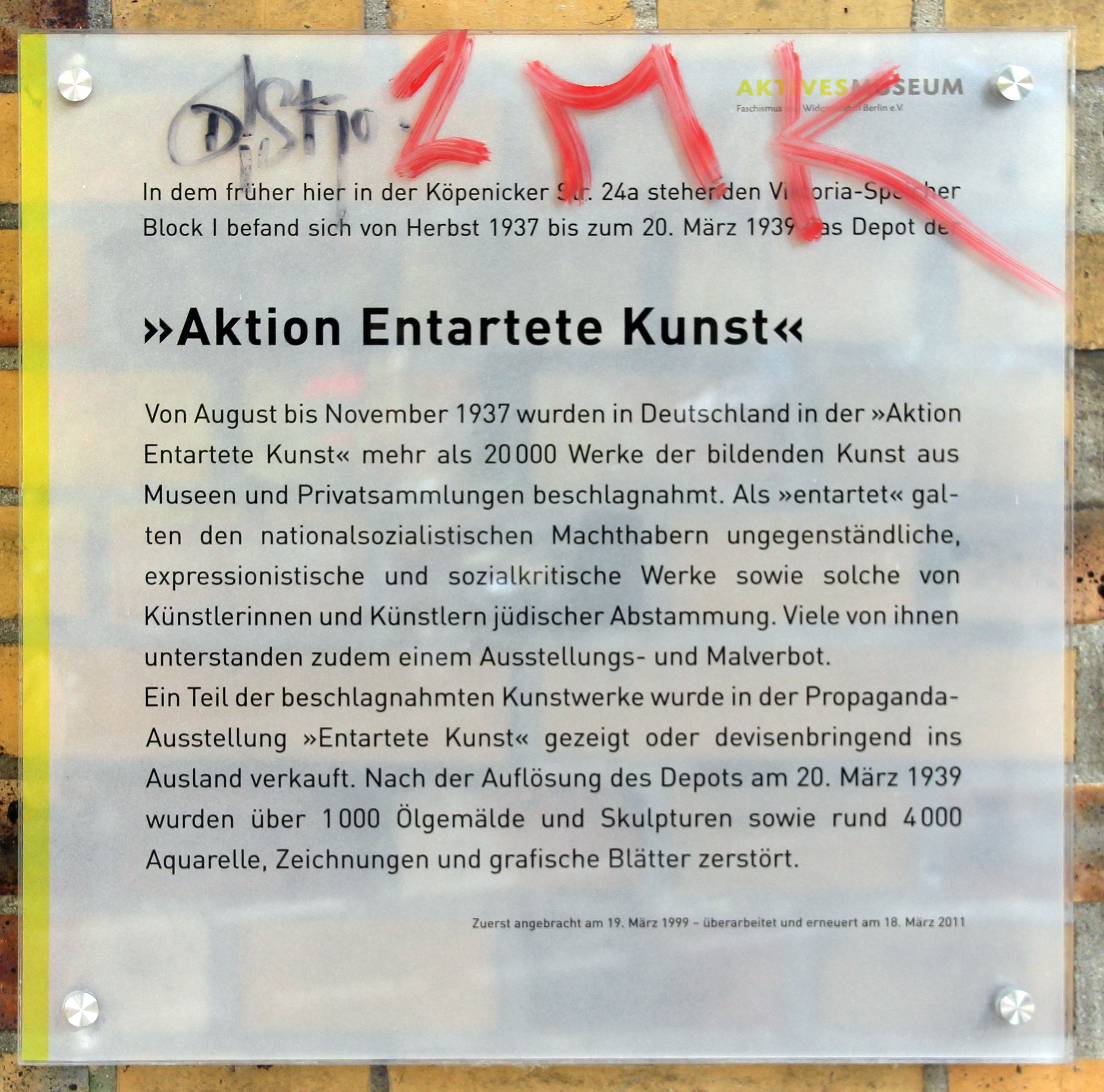 Memorial plaque, Aktion Entartete Kunst, Köpenicker Str 24a, Berlin-Kreuzberg, Germany